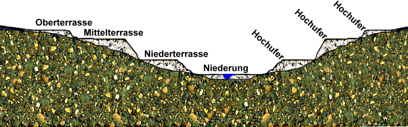 Terrace deposit by river